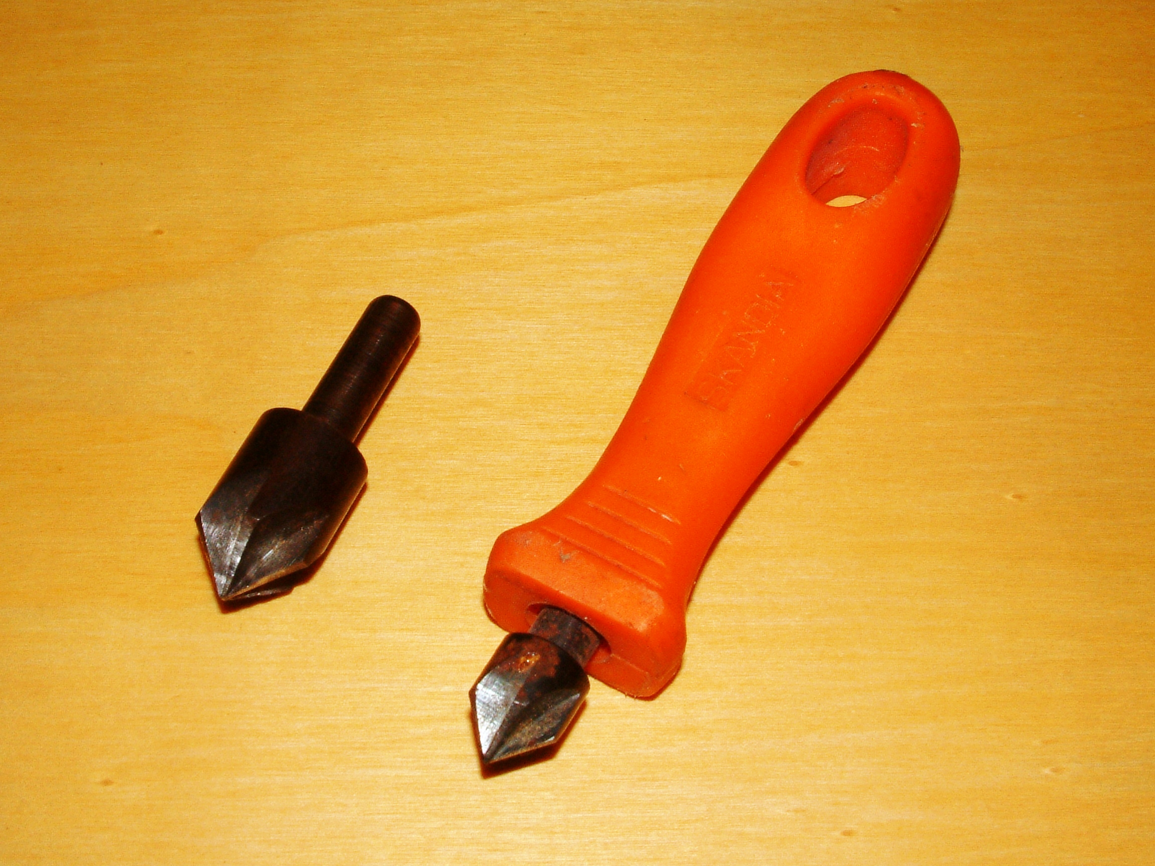 Two countersinks, a drill bit and a handhold one